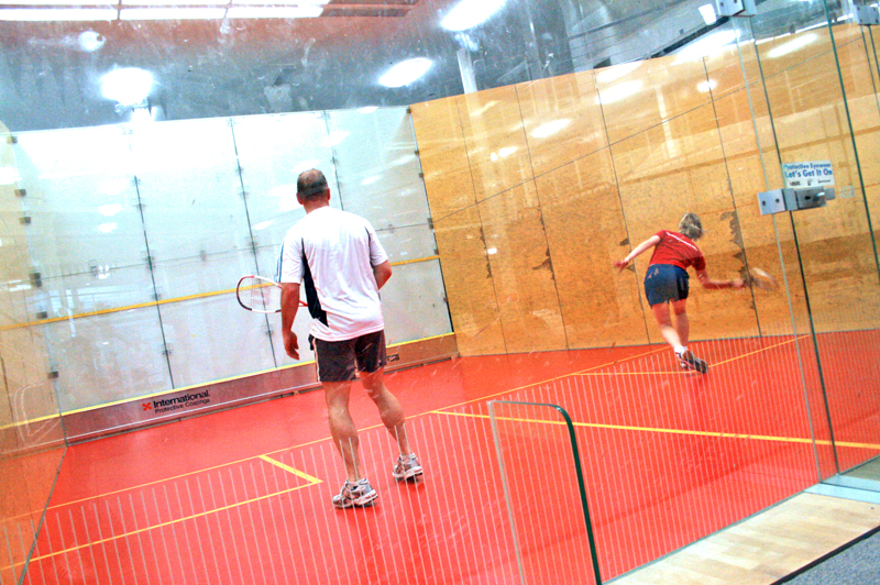 Glass Squash Court